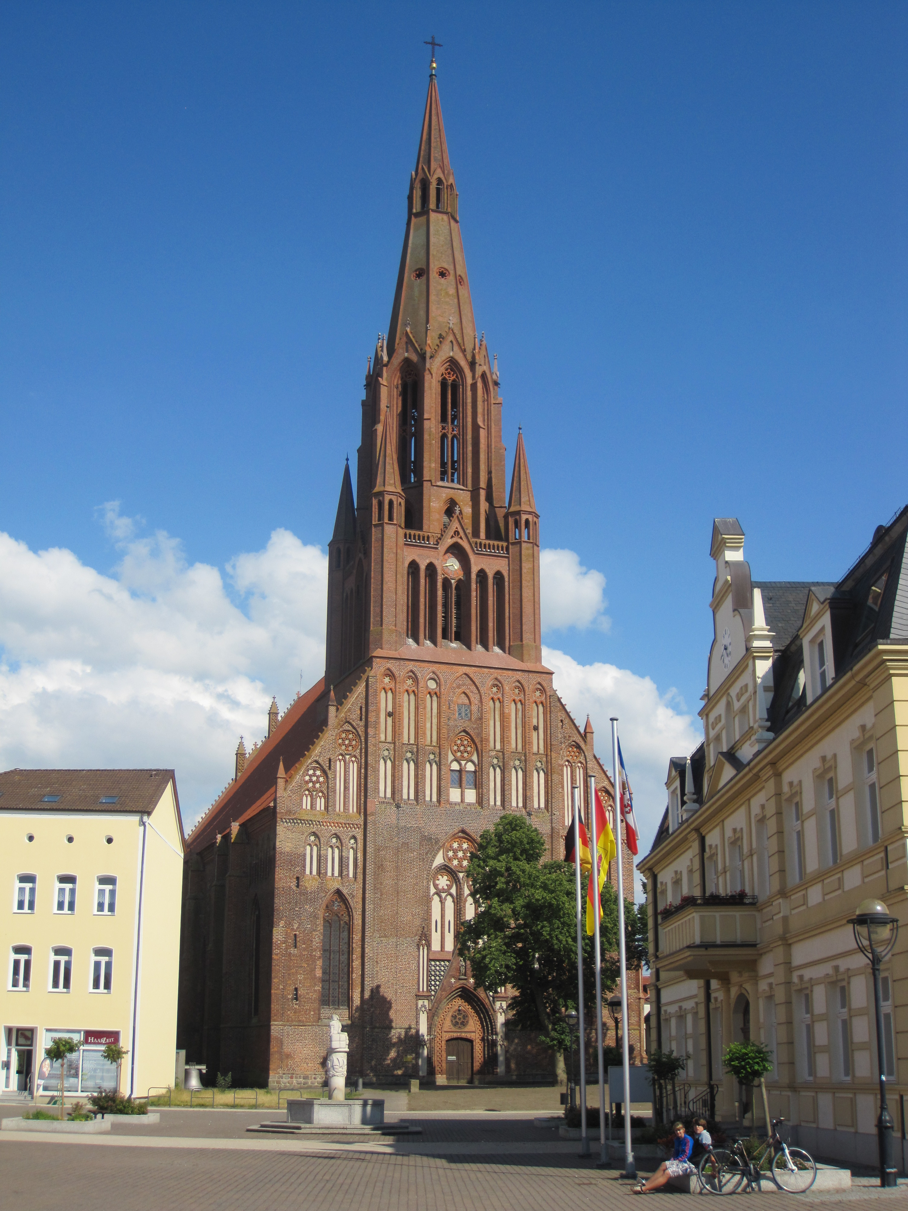 Church St. Bartholomaei Demmin